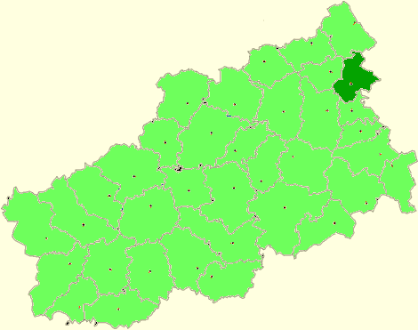 Tver Oblast map by Al Silonov